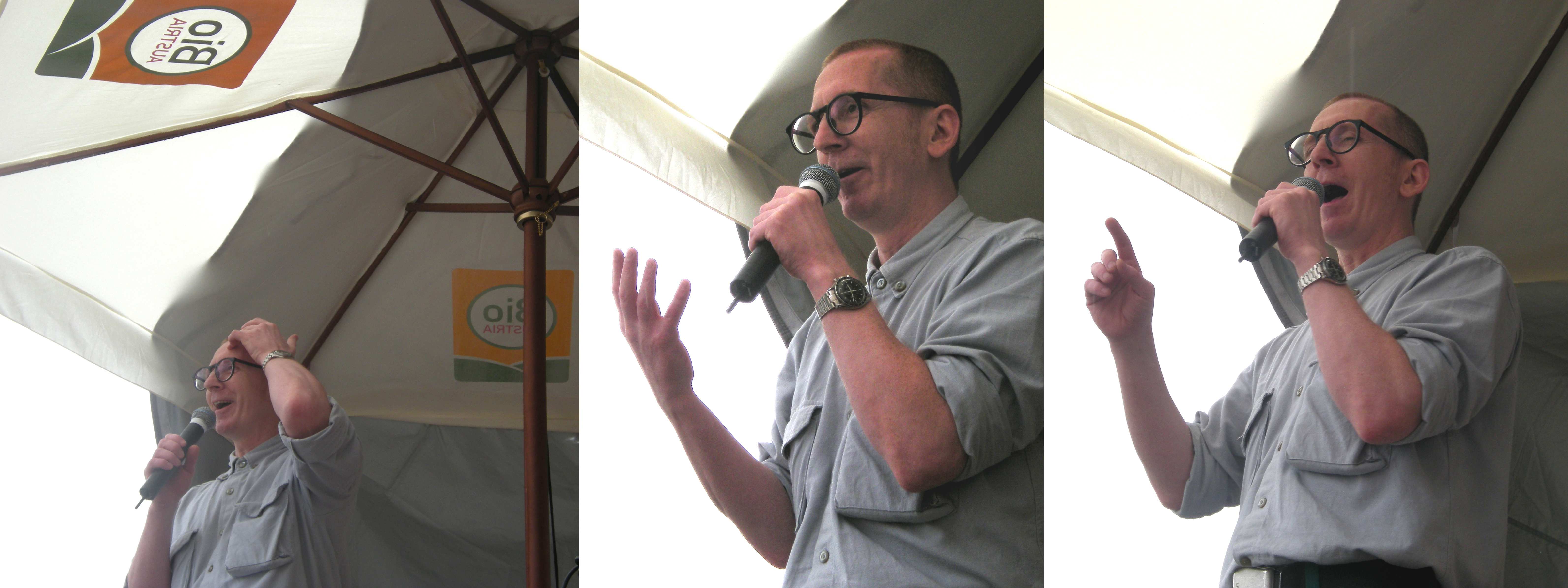 On occasion of annual Viennese Lange Tafel event, a couple Austrian actors&singer-songwriters performed 'open air', although weather was 'somewhat less than welcoming'. The event happened in front of Vienna's MQ.